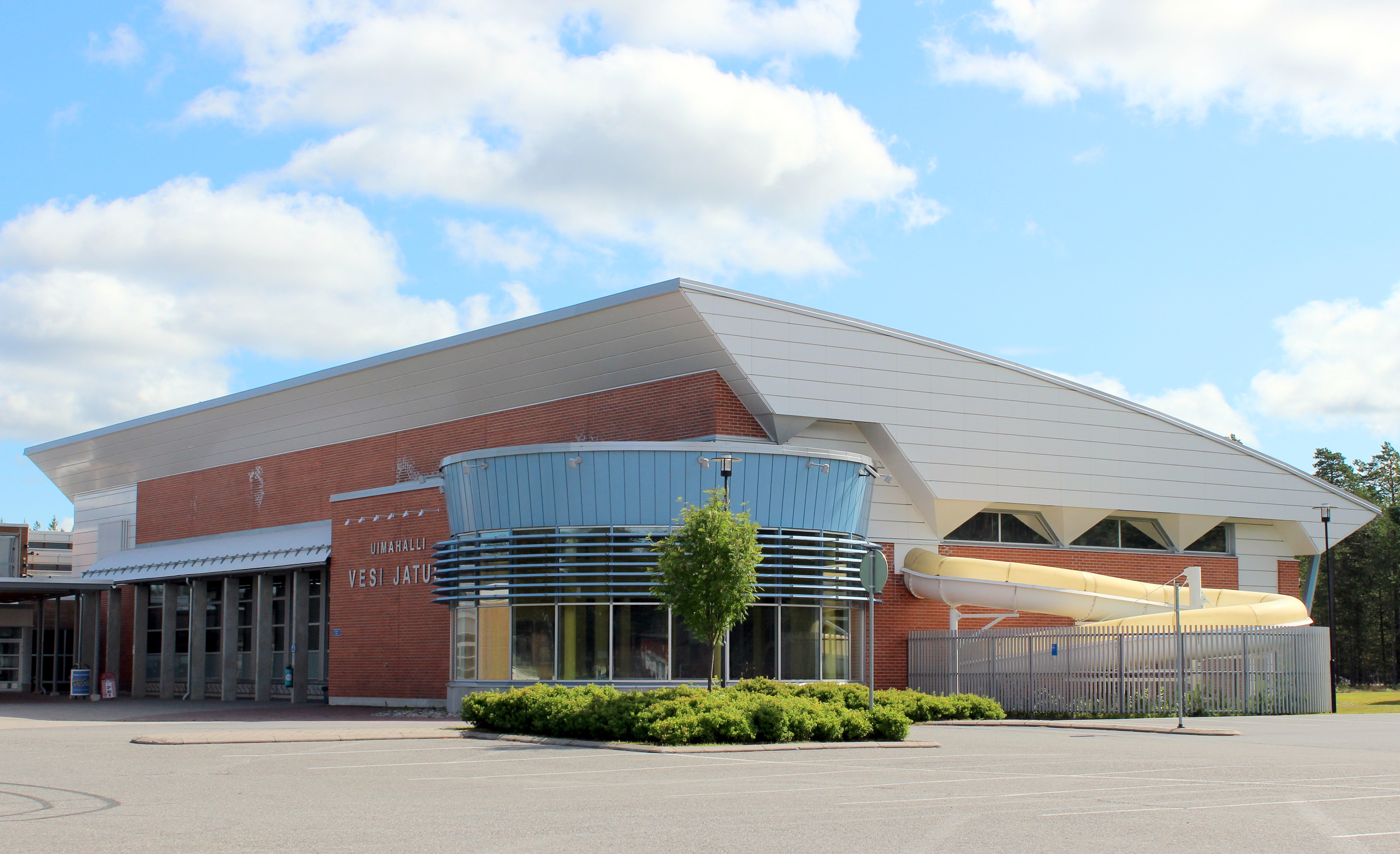 The swimming hall of Haukipudas. Built in 2003.